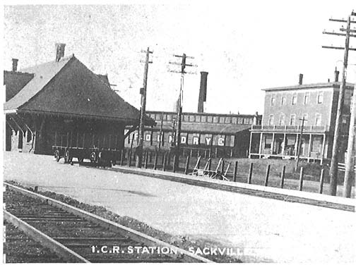 Postcard showing the ICR station in Sackville, NB.